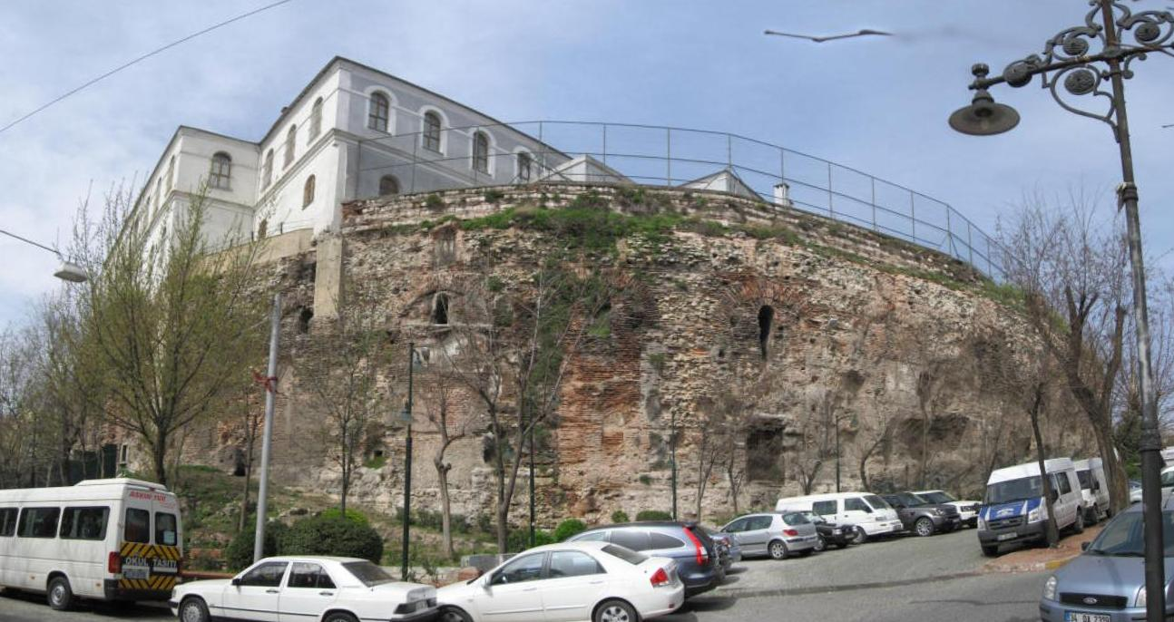 View of the ruined sphendone end part of the Hippodrome of Constantinople.